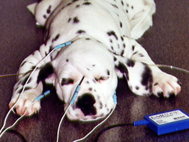 Dalmatiner puppy, Test PEA